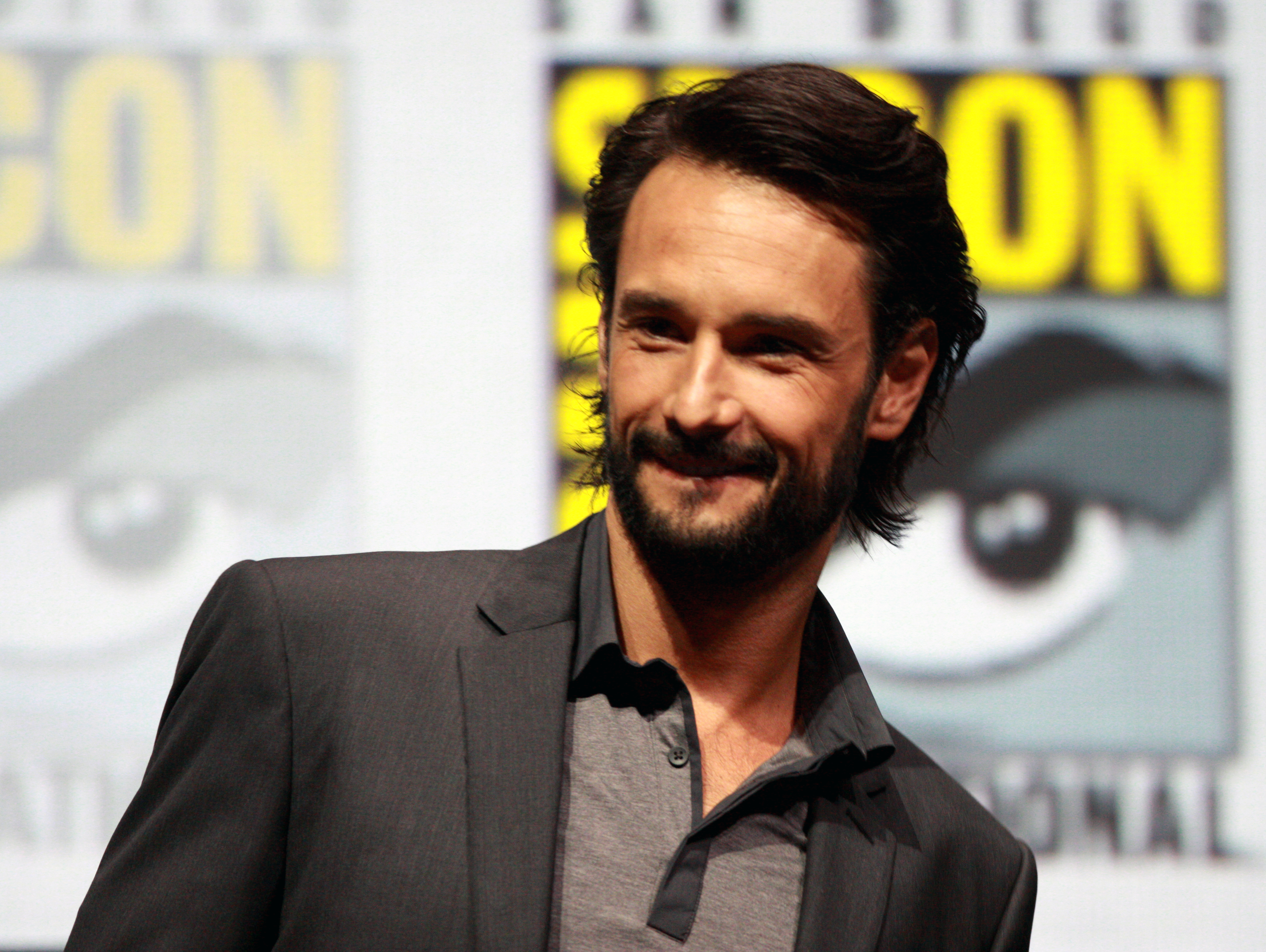 Rodrigo Santoro at the 2013 San Diego Comic Con International in San Diego, California.